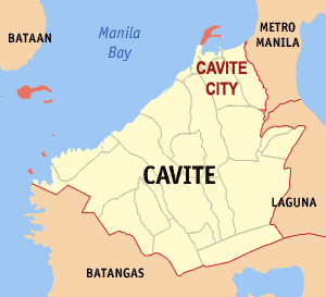 Map of Cavite Province with location of Cavite City, on Cavite Peninsula.